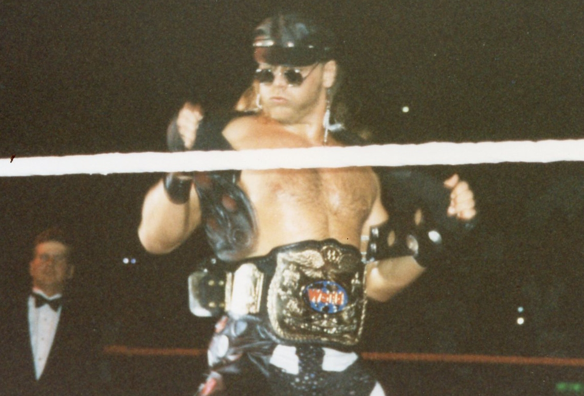 Professional wrestler Shawn Michaels wearing the WWF Tag Team Championship.